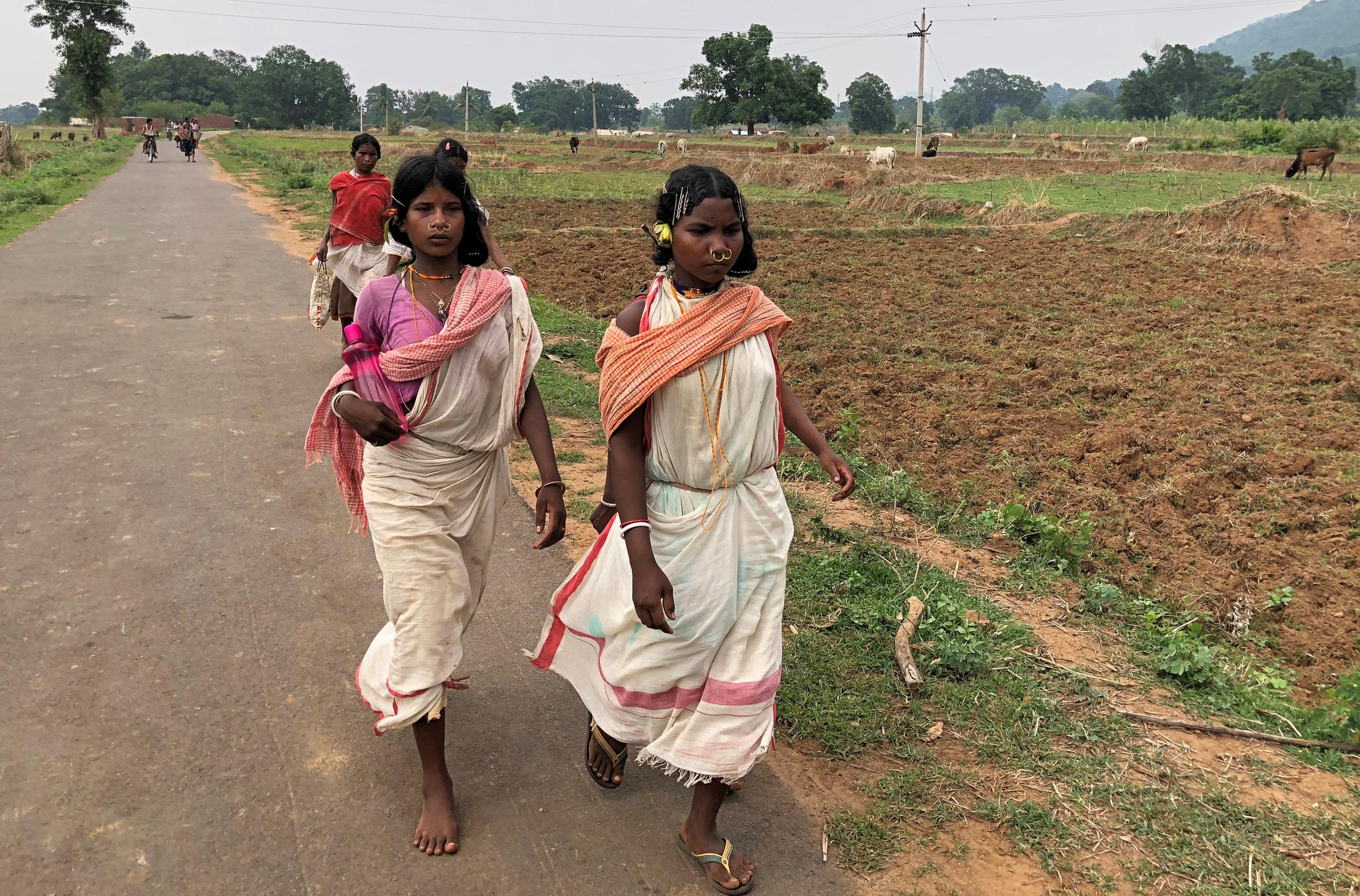 Barefoot walking